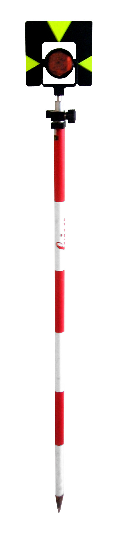 Picture of a surveying reflector pole